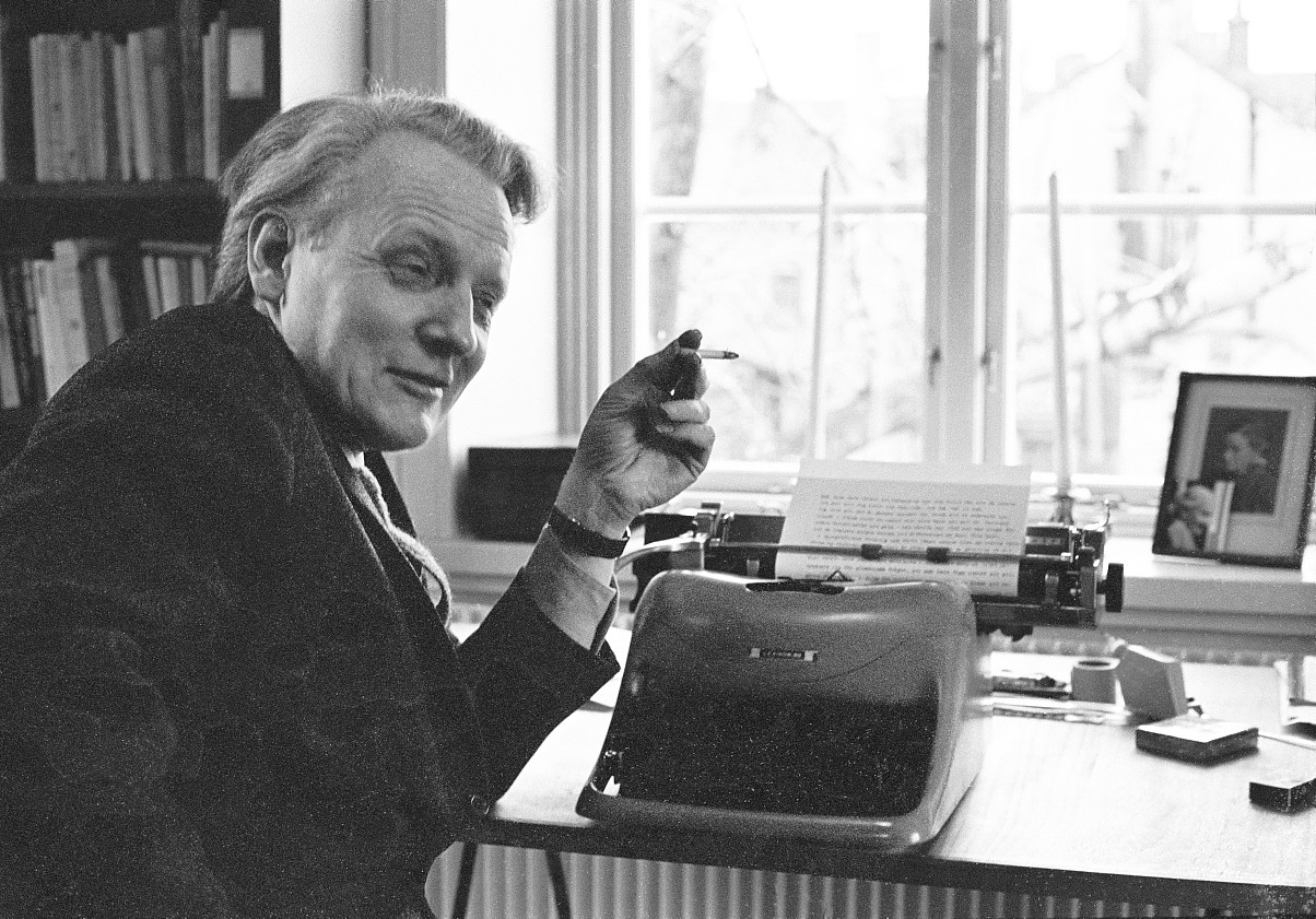 FOTOGRAFIPer Anders Fogelström vid skrivmaskinen i sitt arbetsrum i bostaden på Fjällgatan 30. 1968-1969FOTOGRAF: Lantz, Jerry.BILDNUMMER: S00 5402 04Stadsmuseet i Stockholm